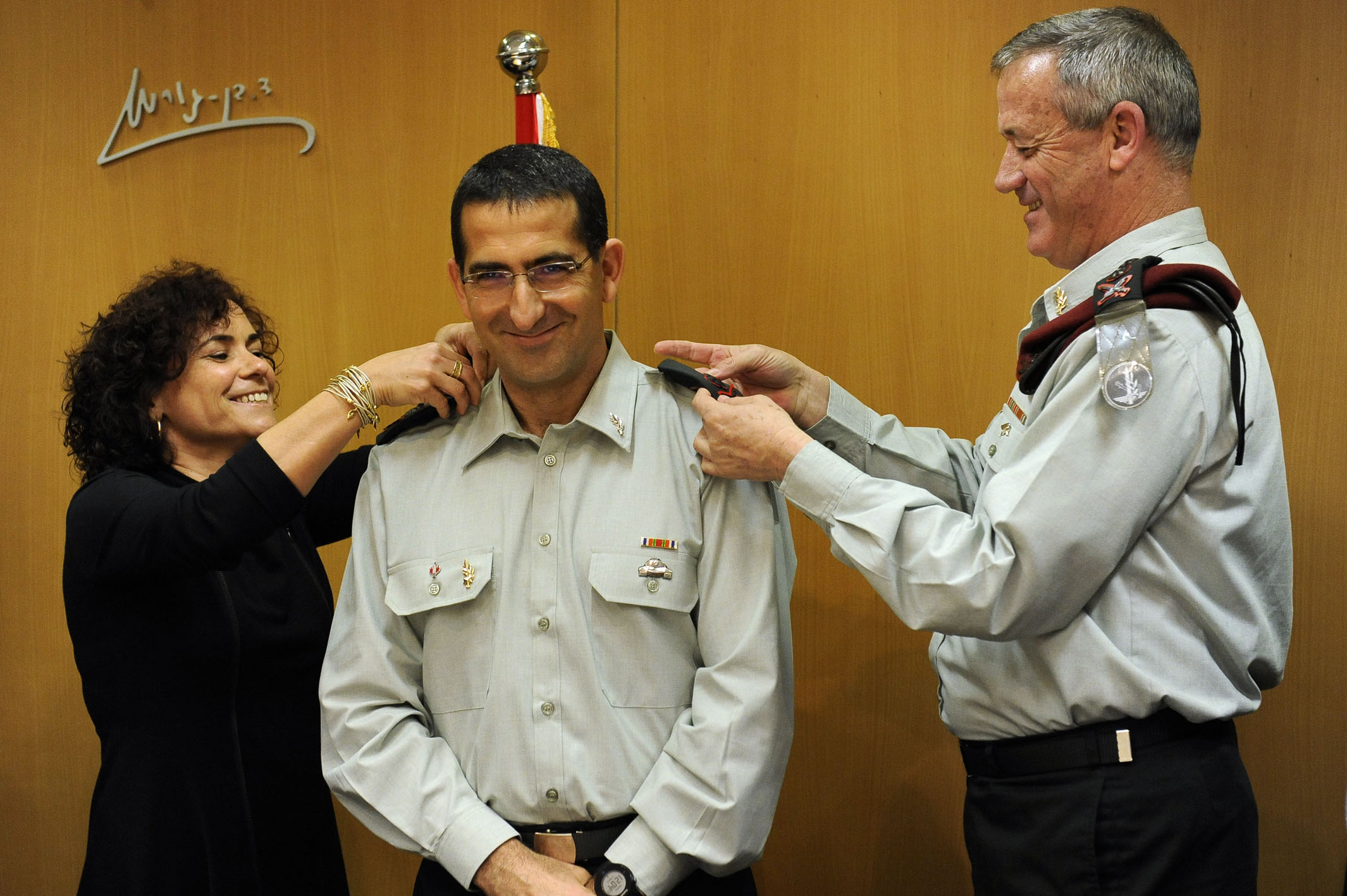 March 5, 2012 On Monday, Major General Yaakov Barak was appointed head of theTechnological and Logistics Directorate. The ceremony was held at the Rabin Base in Tel Aviv, and was conducted in the presence of the IDF Chief of Staff, Lt. Gen Benny Gantz and Minister of Defense, Ehud Barak. Maj. Gen Barak is replacing Maj. Gen Dan Bitton who held the position for over five years. The Israel Defense Forces Facebook page The Israel Defense Forces blog Follow us on Twitter